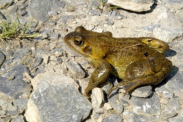 Rana temporaria from Commanster, Belgian High Ardennes (50°15'20``N,5°59'58``E)